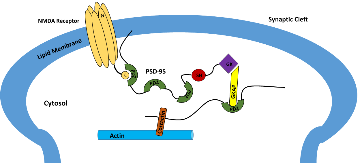 Basic scaffolding complex of the PSD-95 protein